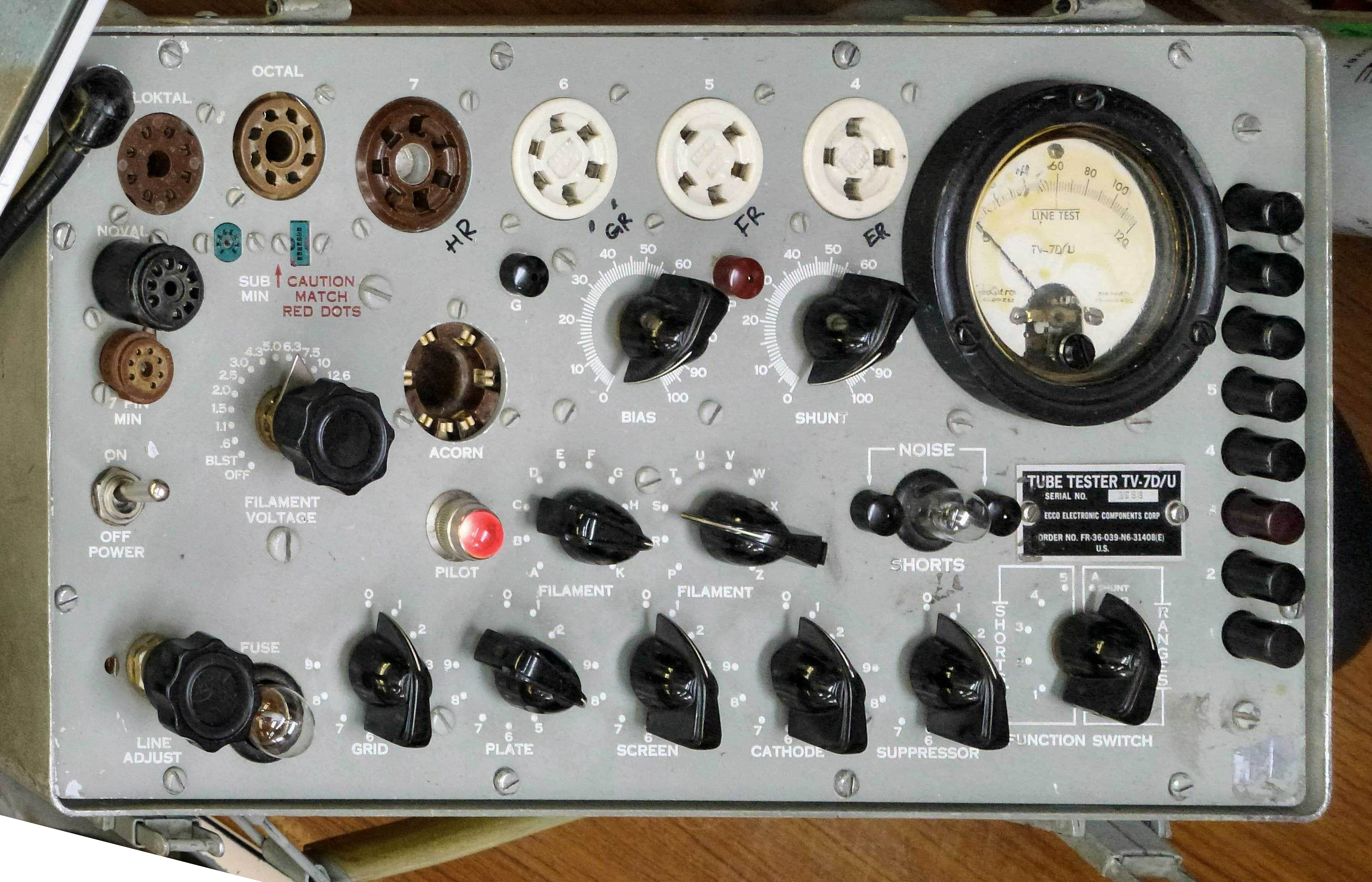 Vacuum tube tester (military) Ecco Electronic components corp. Tube tester TV-7D/4